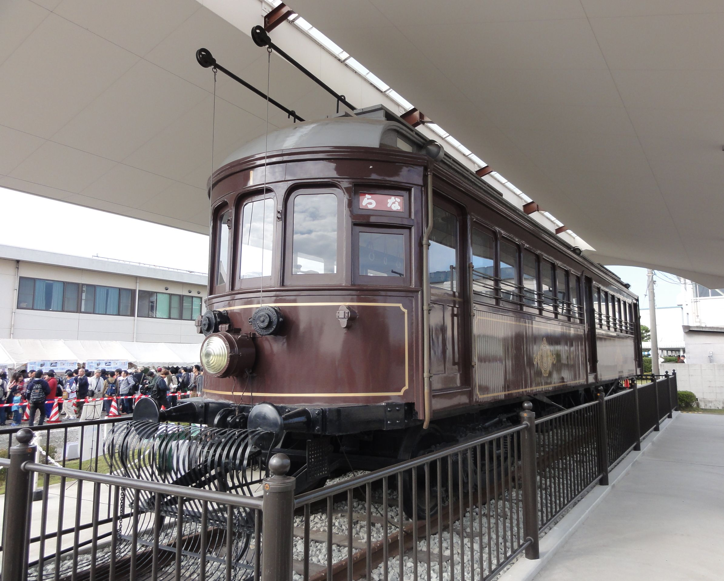 Osaka Electric Tramway Debo 1 series EMU #14 (later Kintetsu Mo 200 series EMU #212) displayed at Kintetsu Goido Inspection Depot